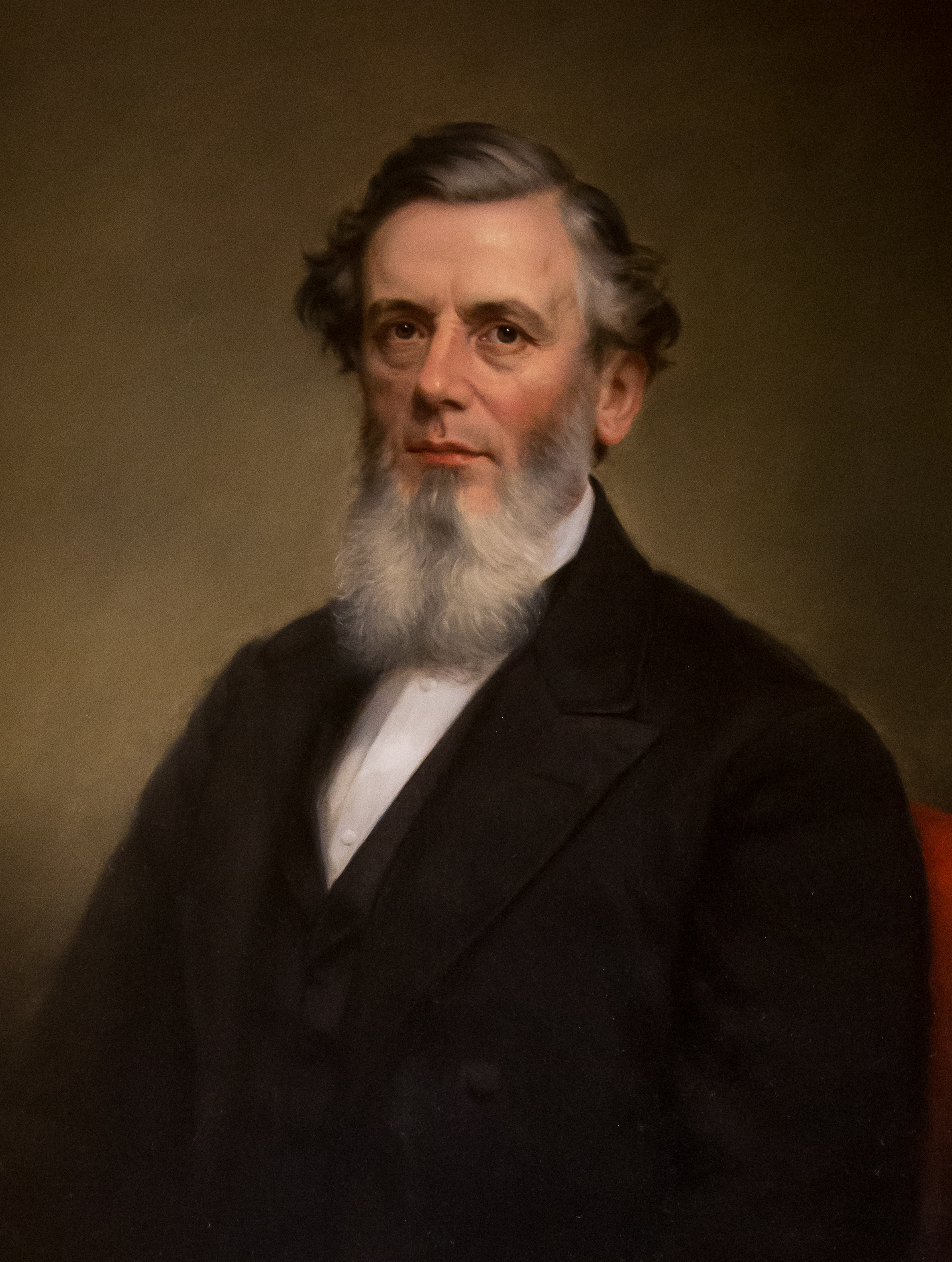 Thomas G. Turner (1810-1875), Governor of Rhode Island 1859-1860. Painting in Rhode Island State House collection